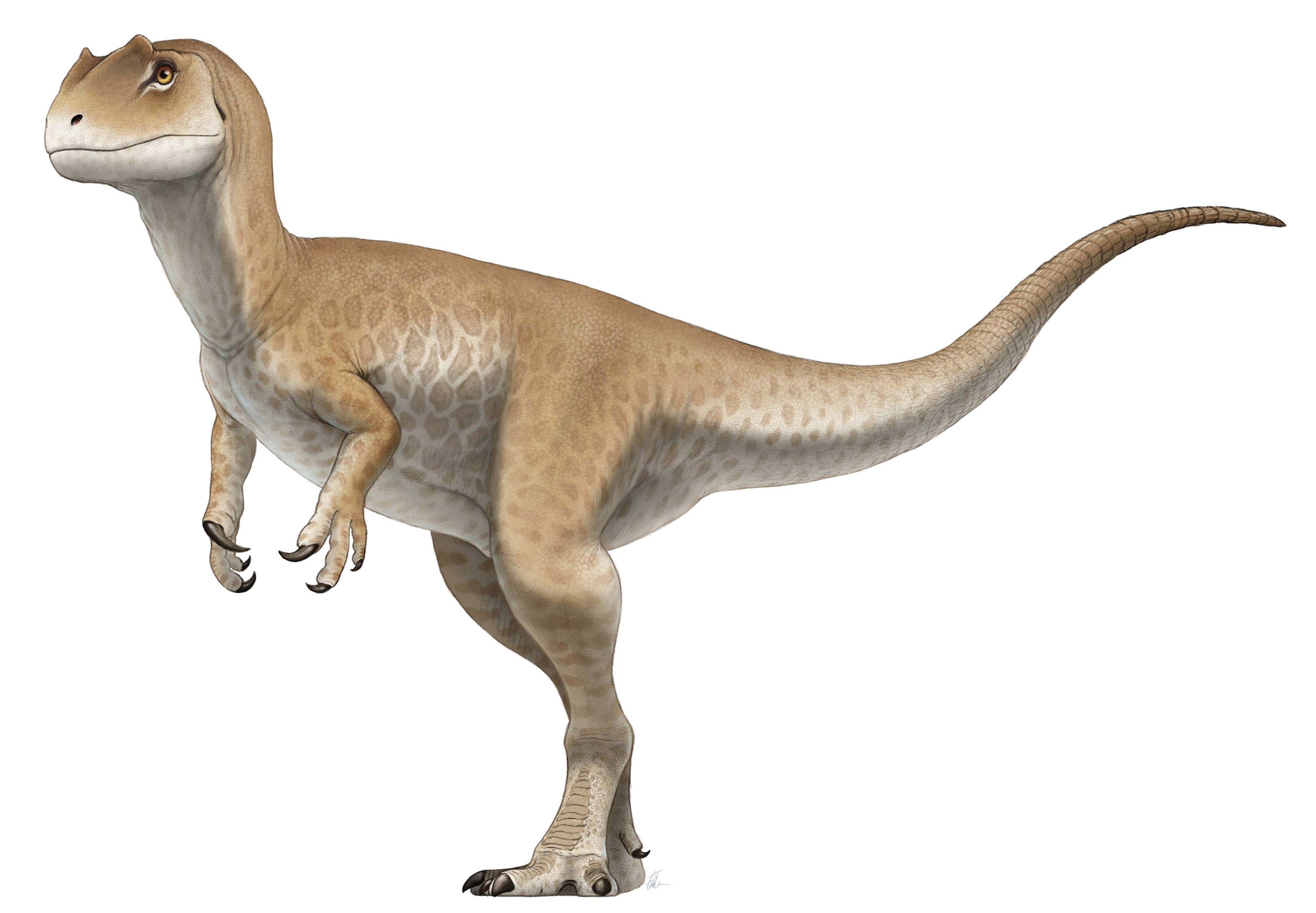 Allosaurus Juvenile Reconstruction by Fred Wierum